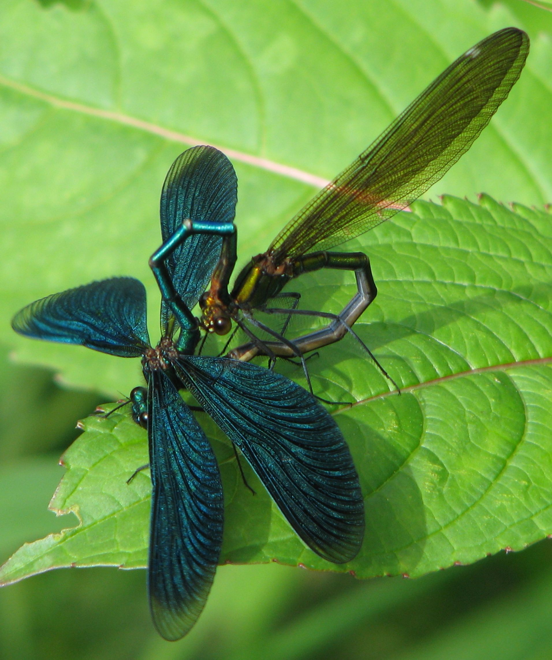 Beautiful Demoiselle Calopteryx virgo mating